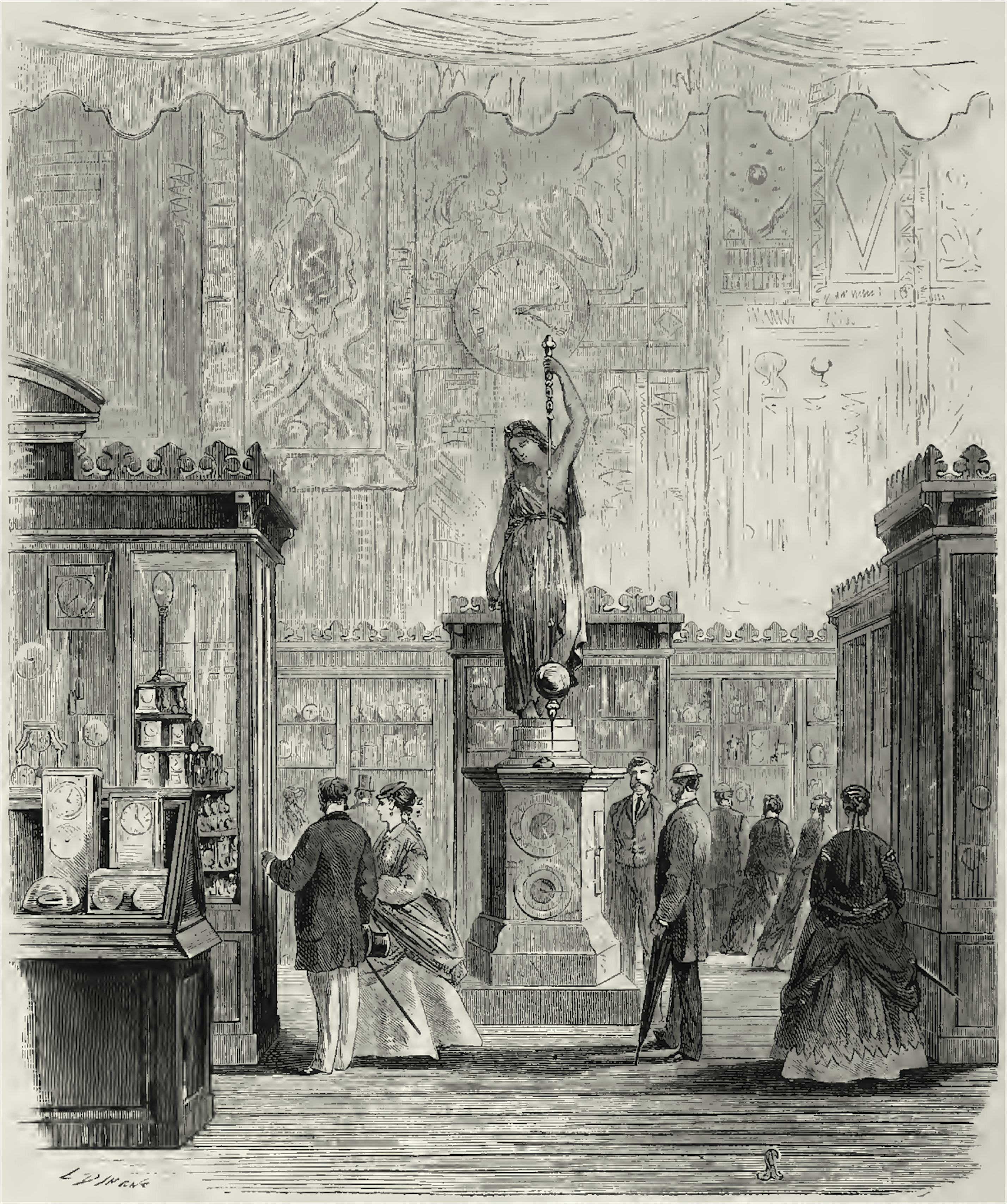 Drawing by Lamy depicting a monumental conical pendulum clock by E. Farcot during the Paris 1867 world fair.